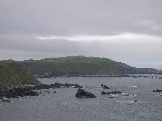 Faraid Head. A spectacular area, very popular for bird watching.